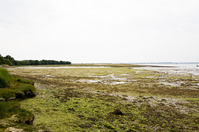 Tidal salt marsh at Ella Nore The spit protects this area.